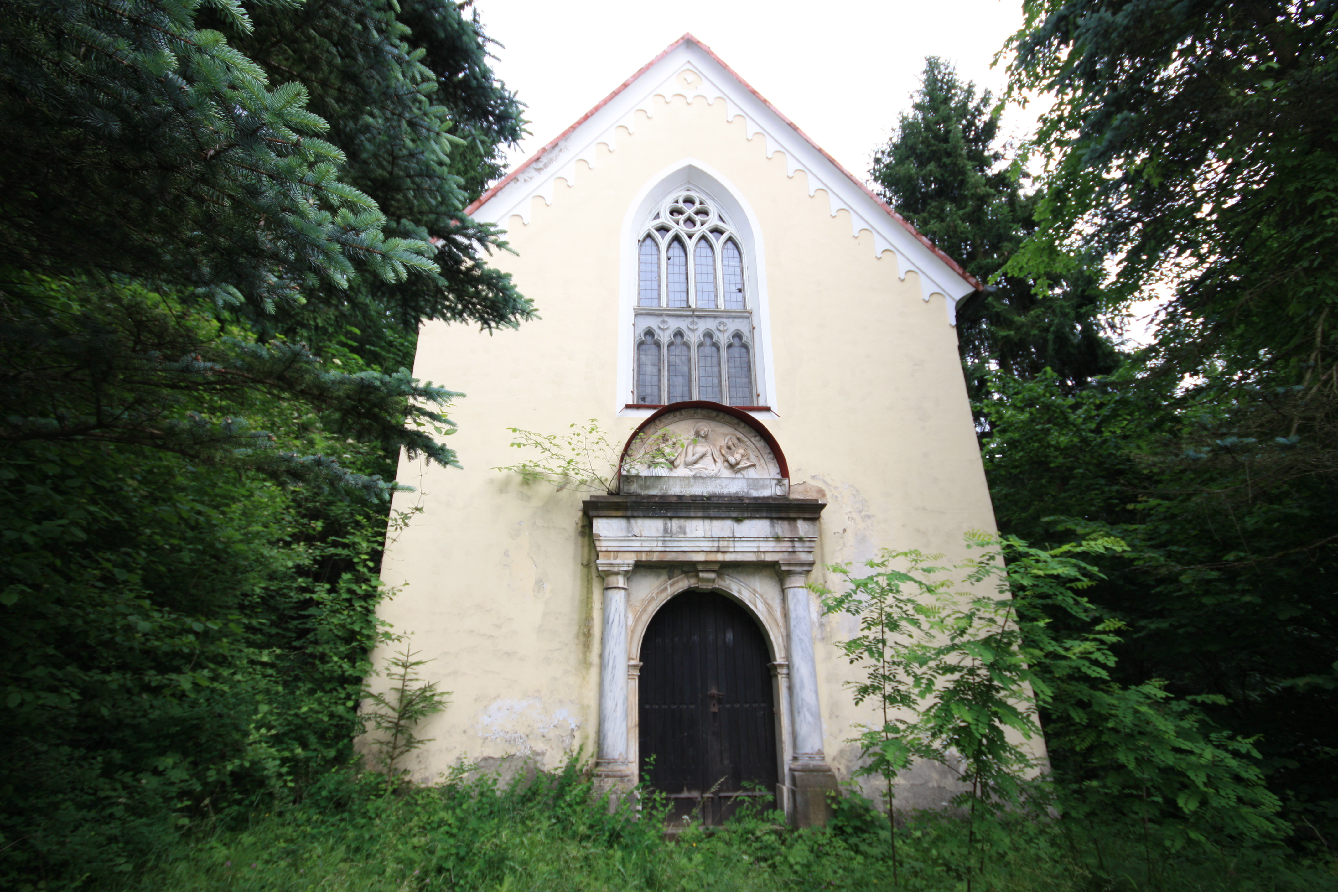 Chapell at Töscheldorf castle, near Althofen Carinthia